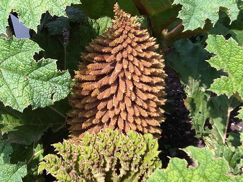 The Chilean rhubarb's (Gunnera tinctoria) inflorescence in WWT London Wetland Centre, England.